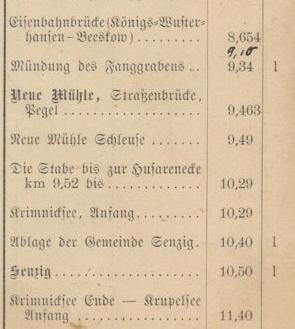 List (part) from 1901 with some sections of the Dahme-Wasserstraße im Brandenburger Landkreis Dahme-Spreewald.